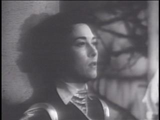 Irene Champlin as Dale Arden from 1954 Flash Gordon series. Series is in the public domain. This work is in the public domain because it was published in the United States between 1923 and 1963 and although there may or may not have been a copyright notice, the copyright was not renewed. Unless its author has been dead for the required period, it is copyrighted in the countries or areas that do not apply the rule of the shorter term for US works, such as Canada (50 pma), Mainland China (50 pma, not Hong Kong or Macao), Germany (70 pma), Mexico (100 pma), Switzerland (70 pma), and other countries with individual treaties. See Commons:Hirtle chart for further explanation.